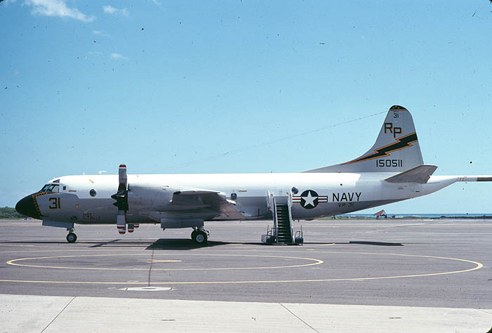 VP-31 (RP 31) P-3A (BuNo 150511) at NAS Barbers Point, March 1979. Repository: San Diego Air and Space Museum Archive